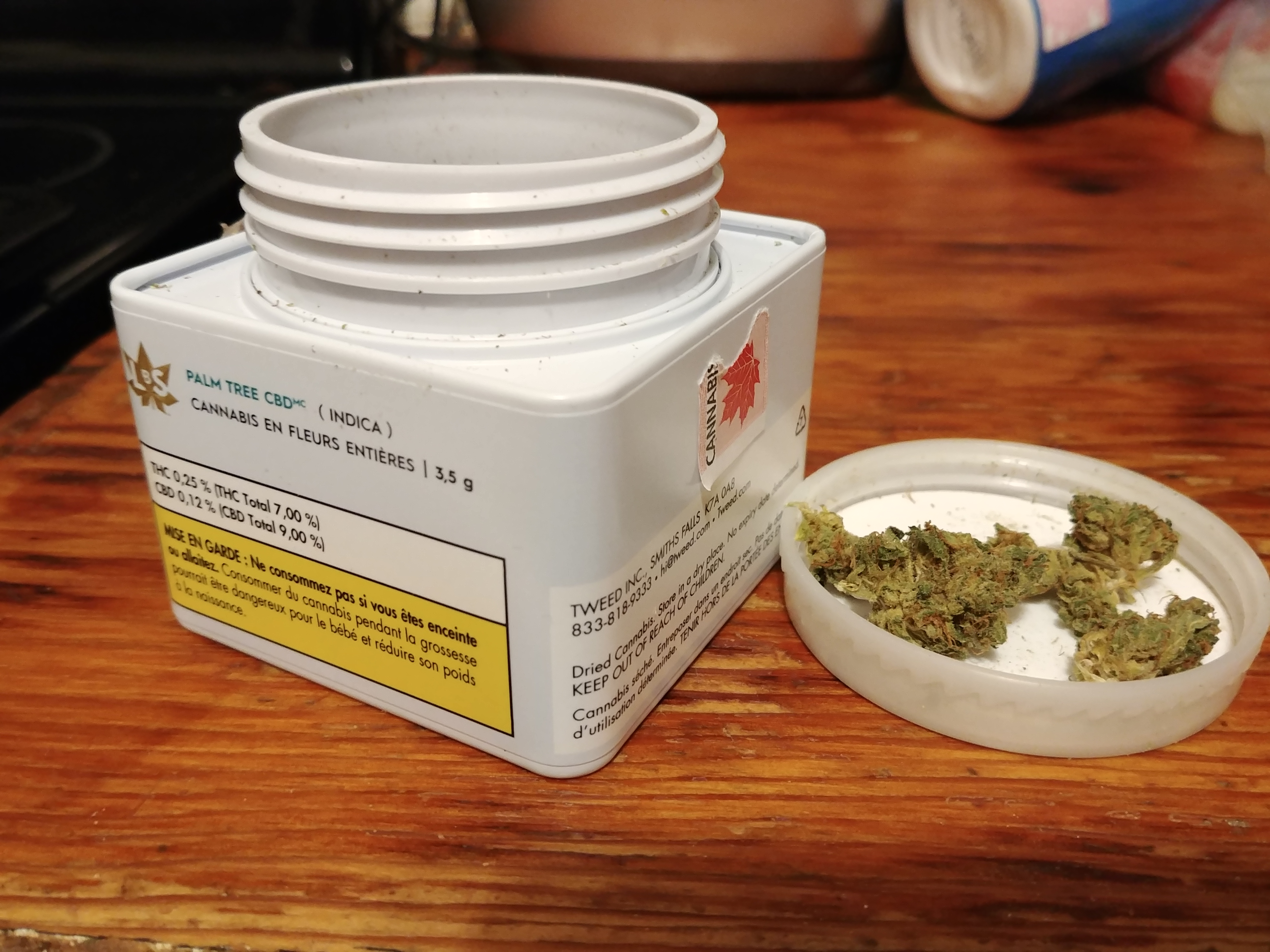 A recreational cannabis container from Tweed Inc. (Canopy Growth Corporation) purchased in Alberta 2018.